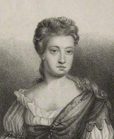 Lady Grace Gethin by Edward Scriven, after A. Dickson, stipple engraving, published 1815